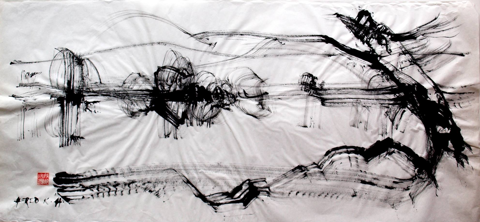 Original Title: Drvo na obali rijeke Date: 2014; Karlovac, Croatia Style: Sumi-e (Suiboku-ga) Genre: landscape Media: japanese paper Dimensions: 46 x 99 cm